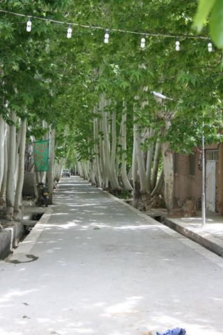 خیابان ولی عصر برزاباد